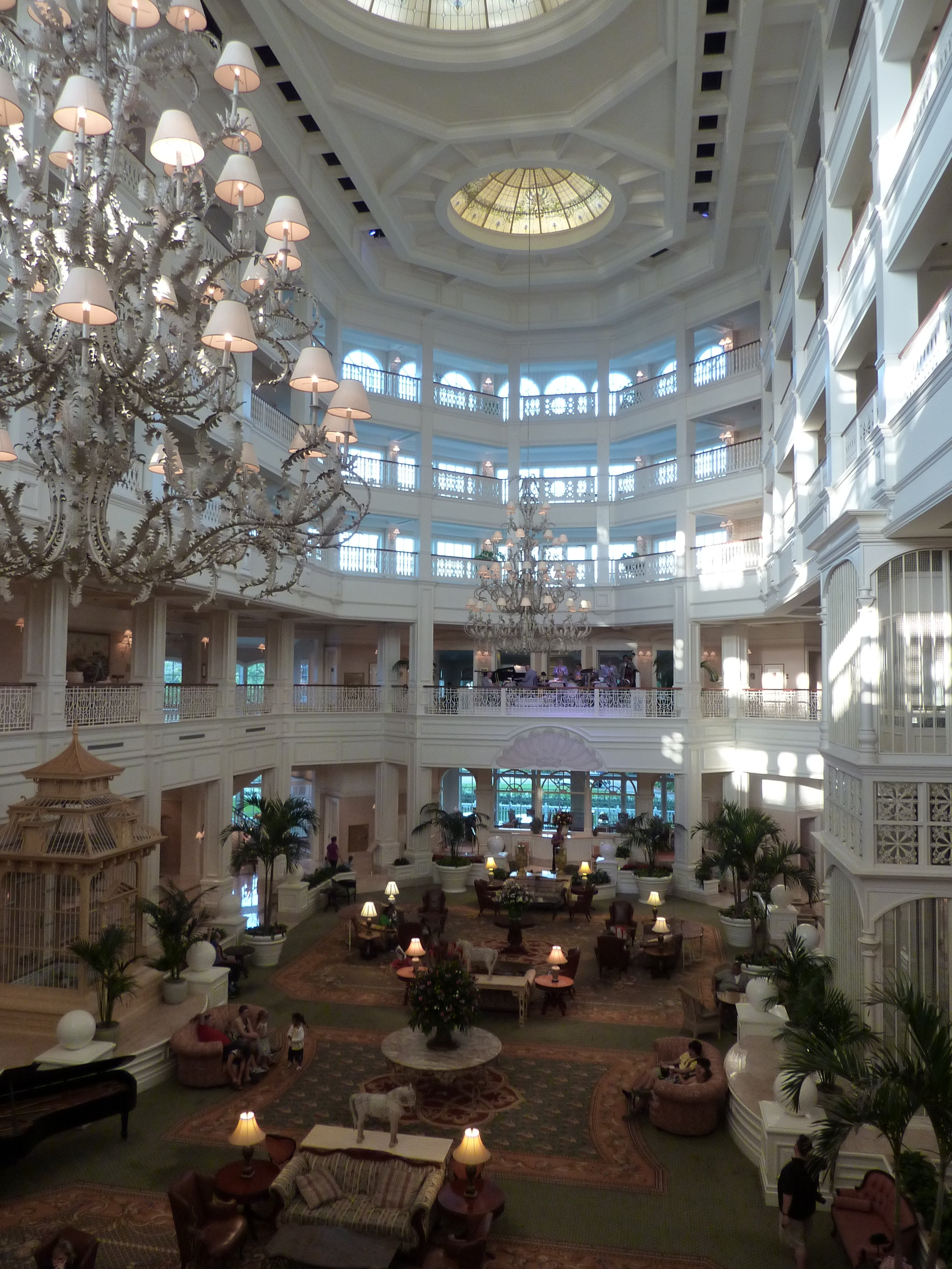 Lobby of the Grand Floridian Resort & Spa at Walt Disney World